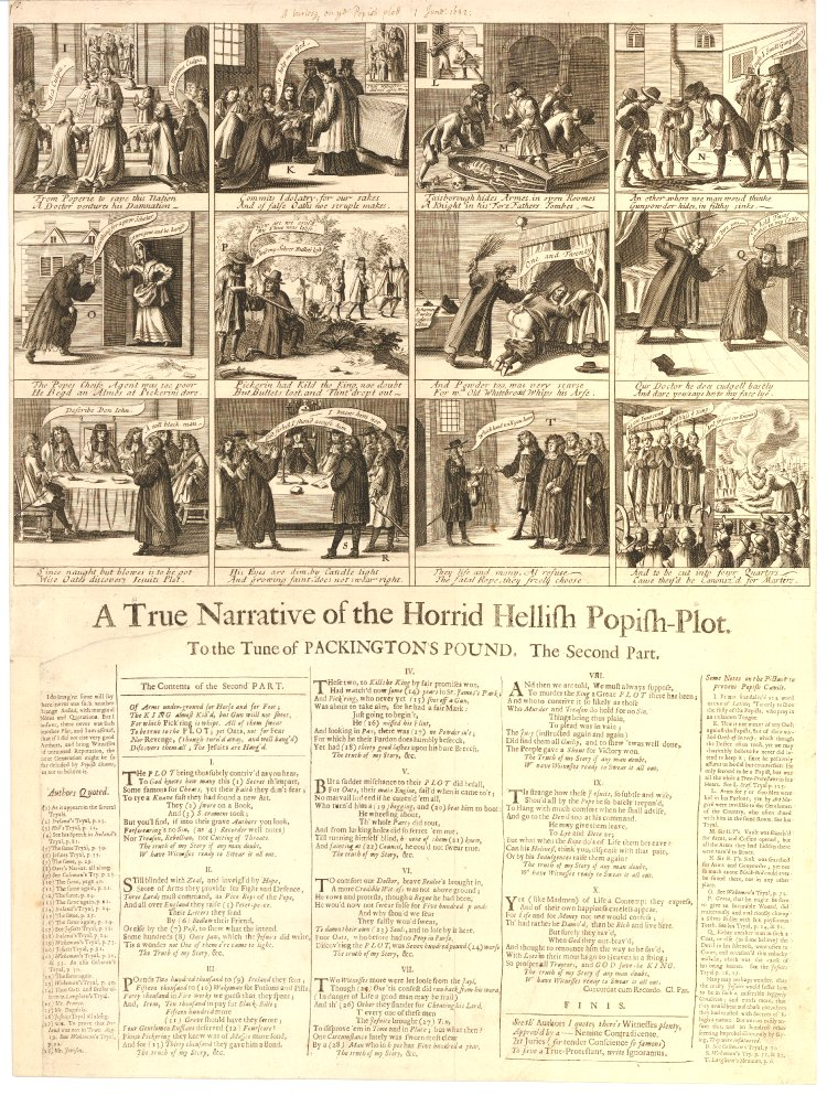 A True Narrative of the Horrid Hellish Popish-Plot. To the tune of Packington's Pound. The second part